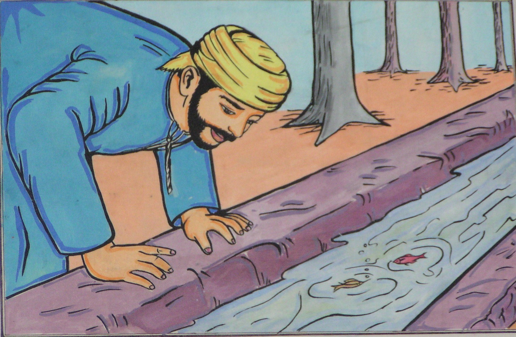 An Omani inspecting the rivulet